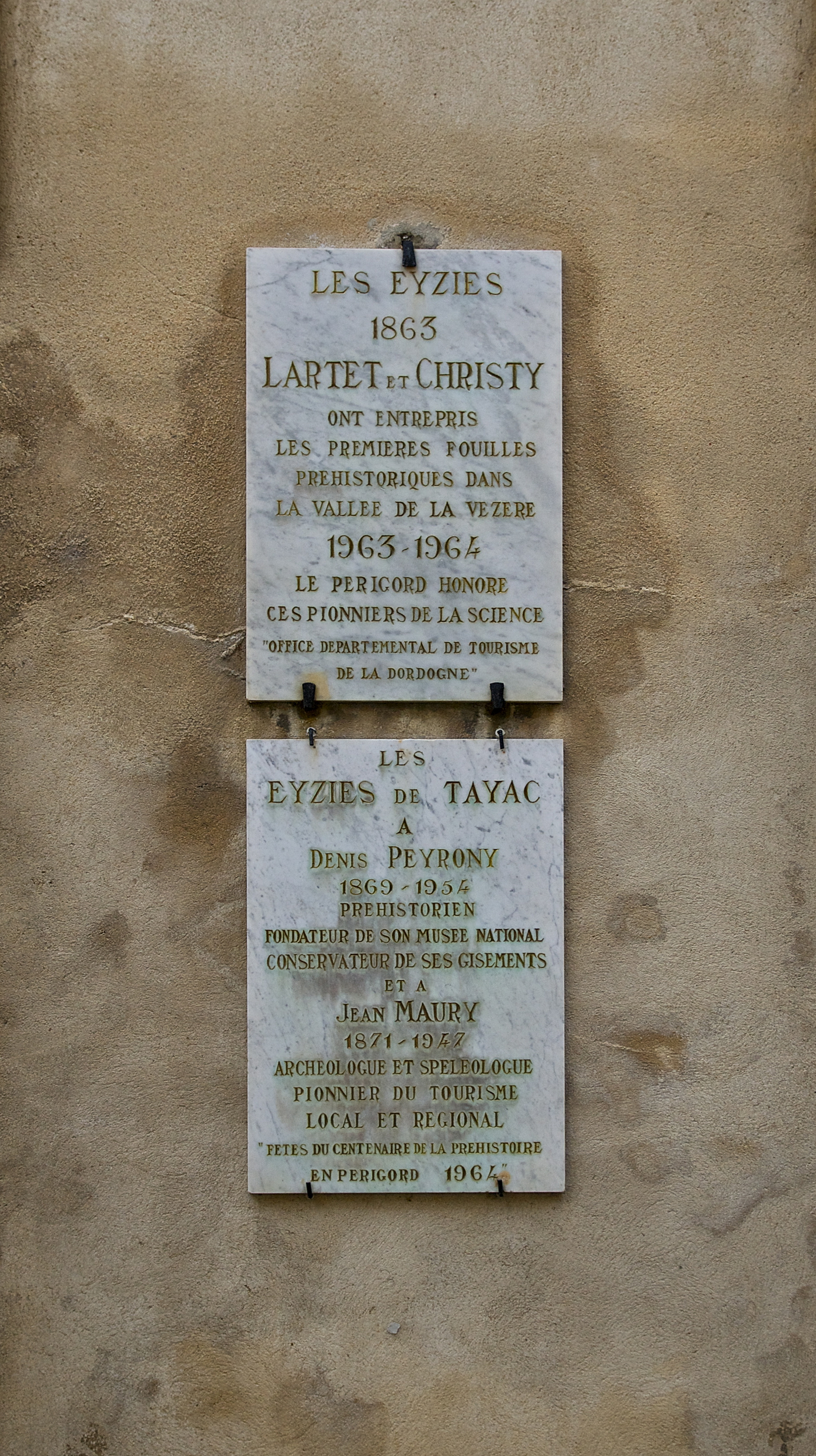 Two plates, tributes to prehistorians and archeologists Edouard Lartet, Henry Christy, Denis Peyrony & Jean Maury. Les Eyzies de Tayac, Dordogne, France.